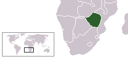 Locator map for South Rhodesia (now Zimbabwe). It shows Walvis Bay (Namibia) as part of South Africa (during the brief time Rhodesia existed, South Africa held Walvis Bay).